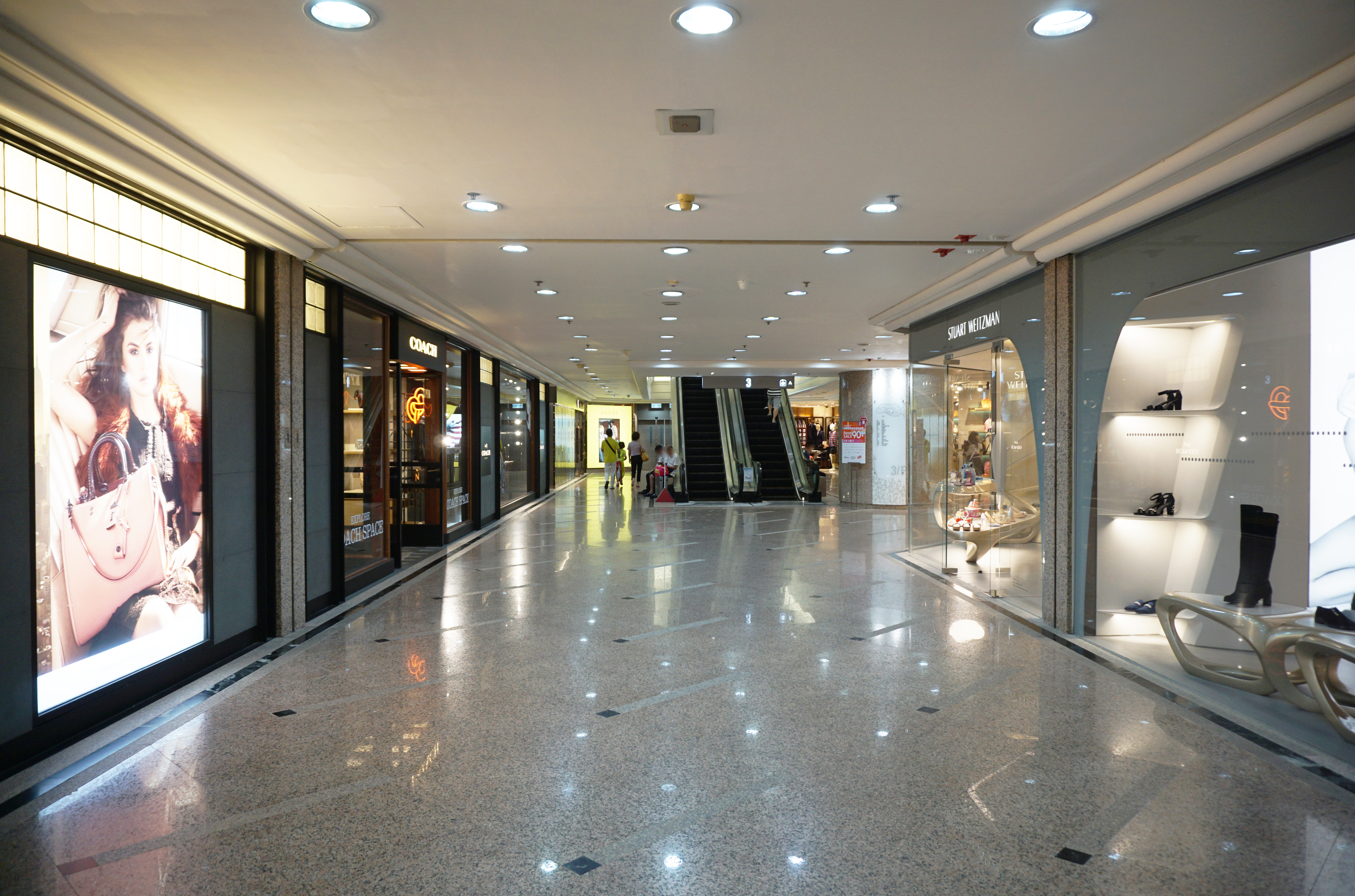 Times Square in Causeway Bay, Hong Kong.